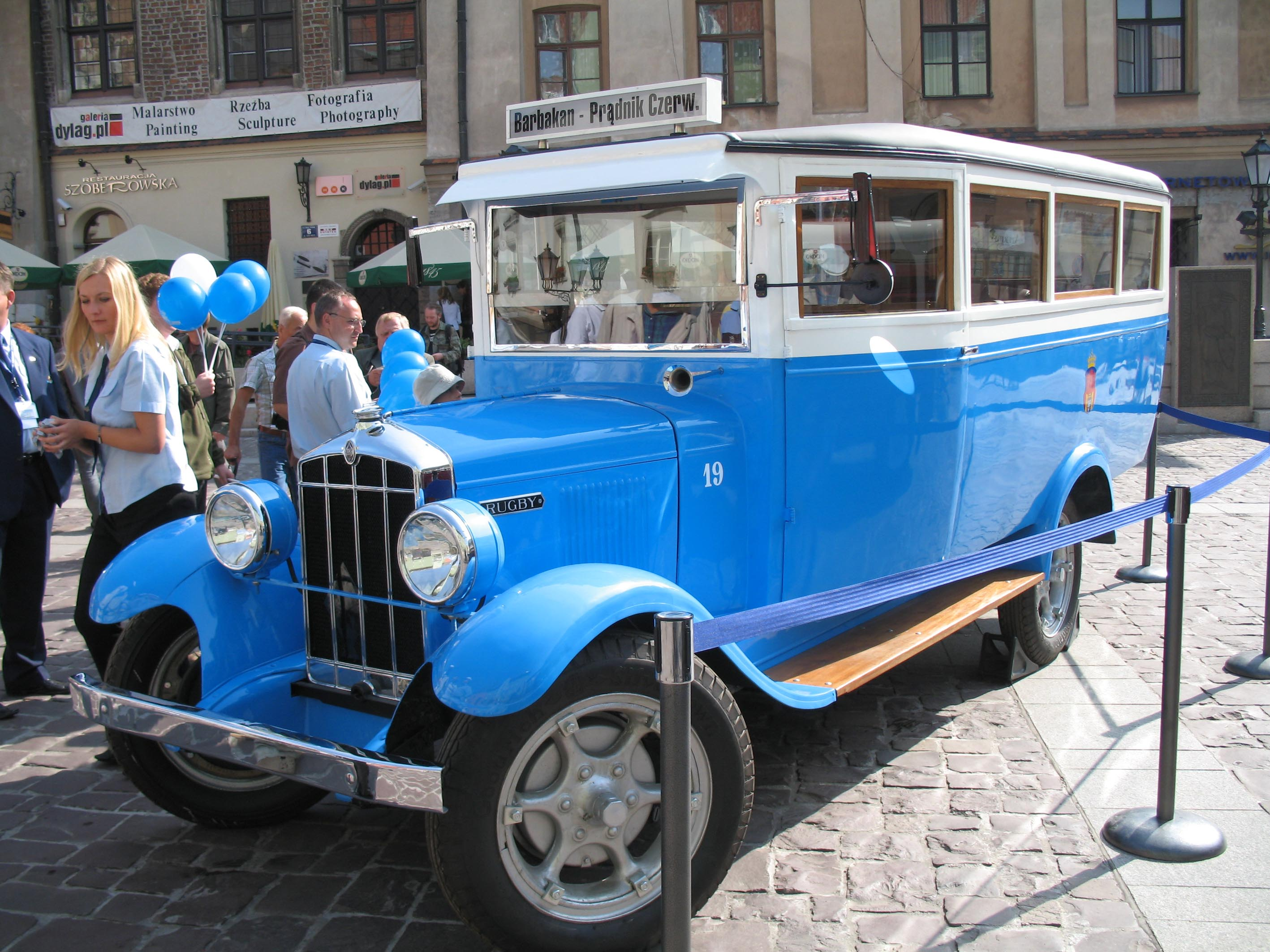 Rugby Express L bus (#19), Little Market Square in Kraków, Poland. Built 1929, MPK Kraków operator.